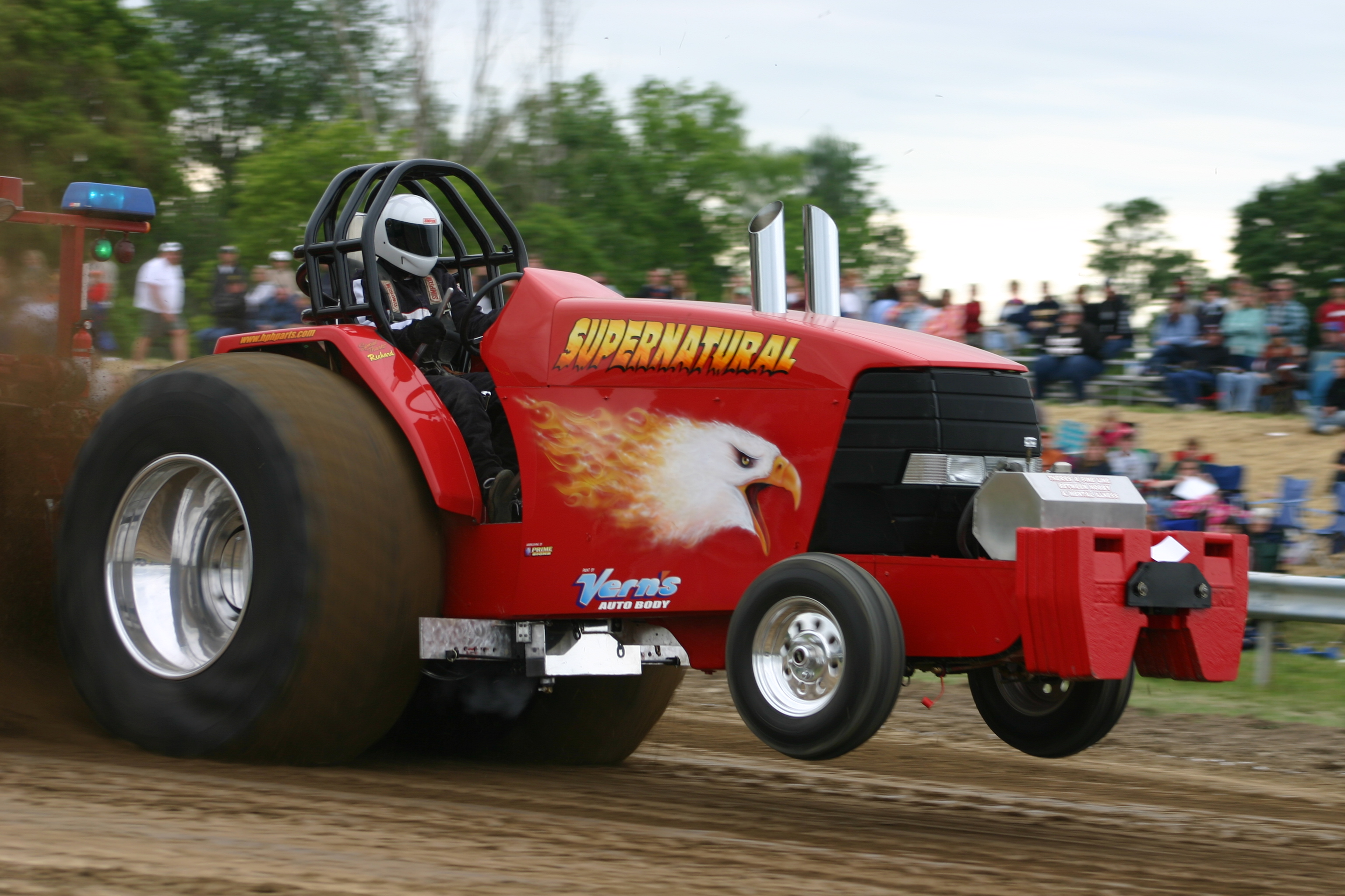 Hayes Tractor Pulling Supernatural Pulling Tractor